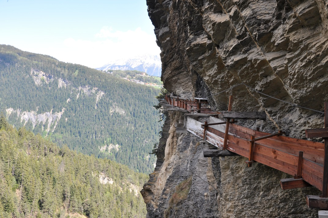 Bisse d'Ayent, above Sion, Switzerland. This is part of an old irrigation system.